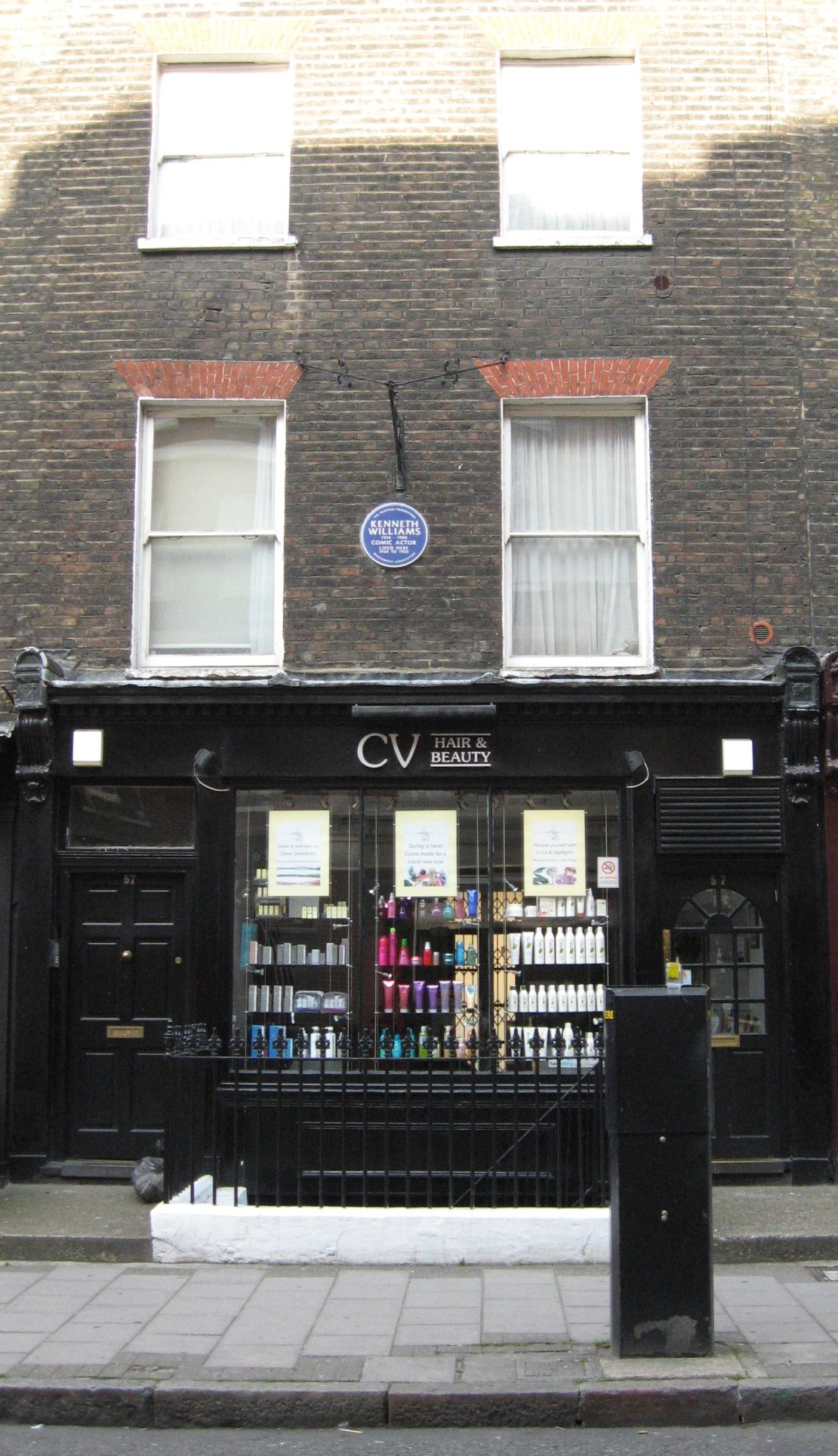 Kenneth Williams' blue plaque at 57 Marchmont Street in Bloomsbury, London